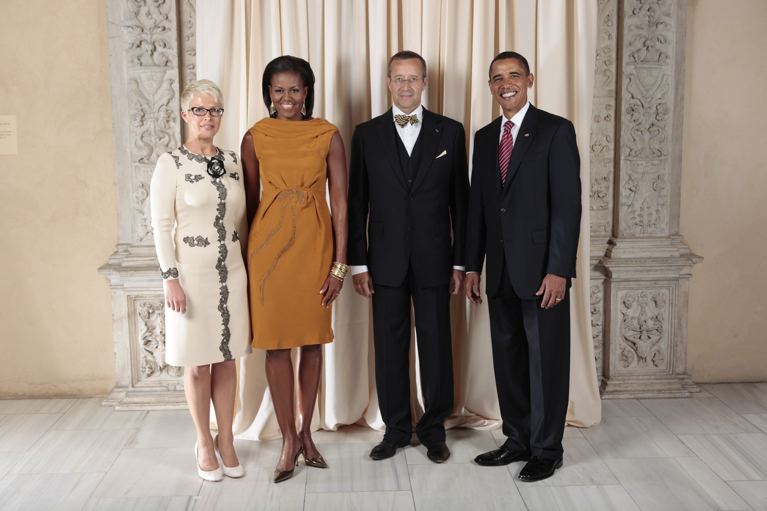 President Barack Obama and First Lady Michelle Obama pose for a photo during a reception at the Metropolitan Museum in New York with Toomas Hendrik Ilves, President of the Republic of Estonia, and his wife, First Lady Evelin Ilves.